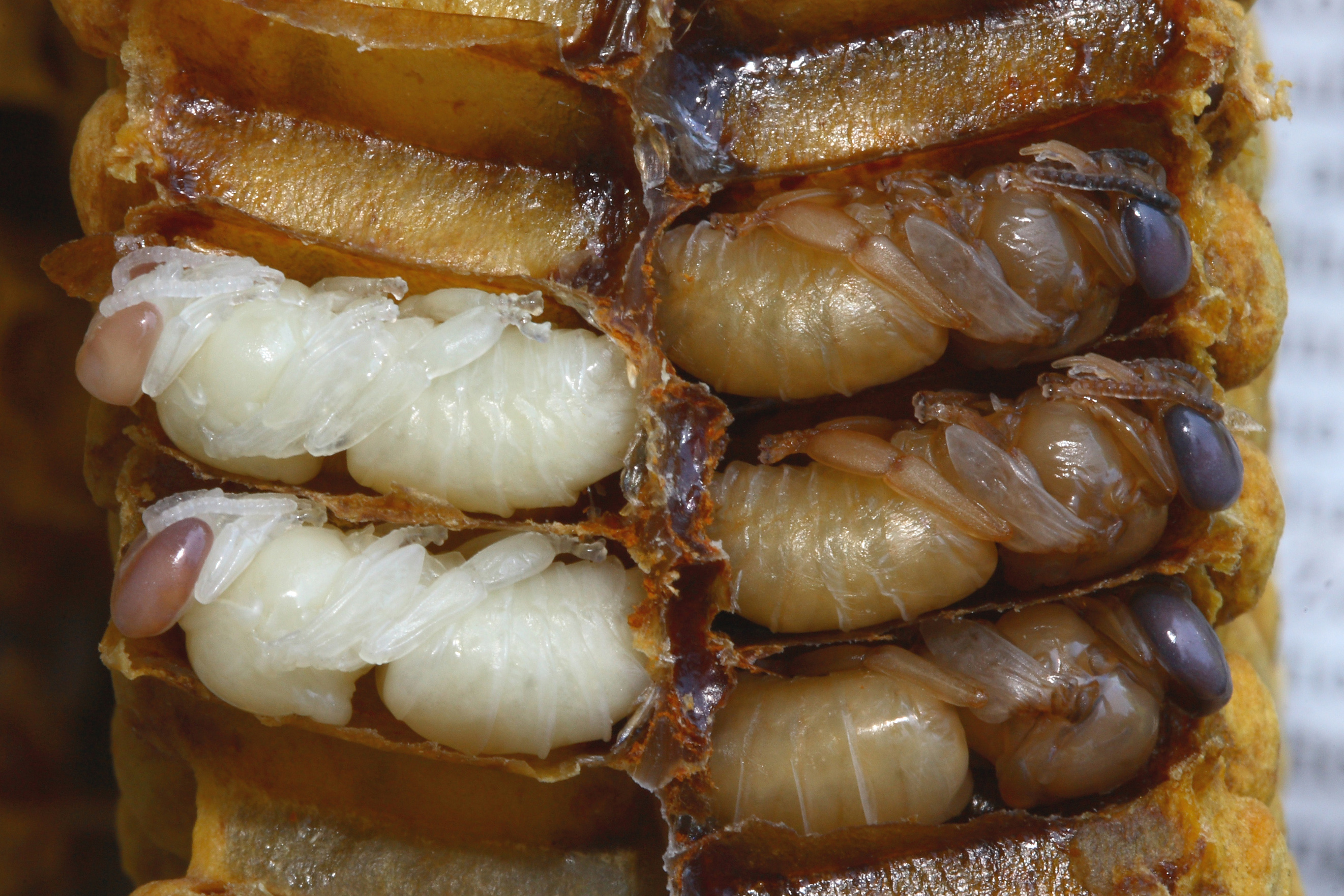 Pupae of drones (honeybee) in opened cells at both sides of a honeycomb. The drones at the right side are some days older and more developed.